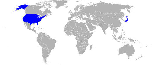 CH-53E Operators